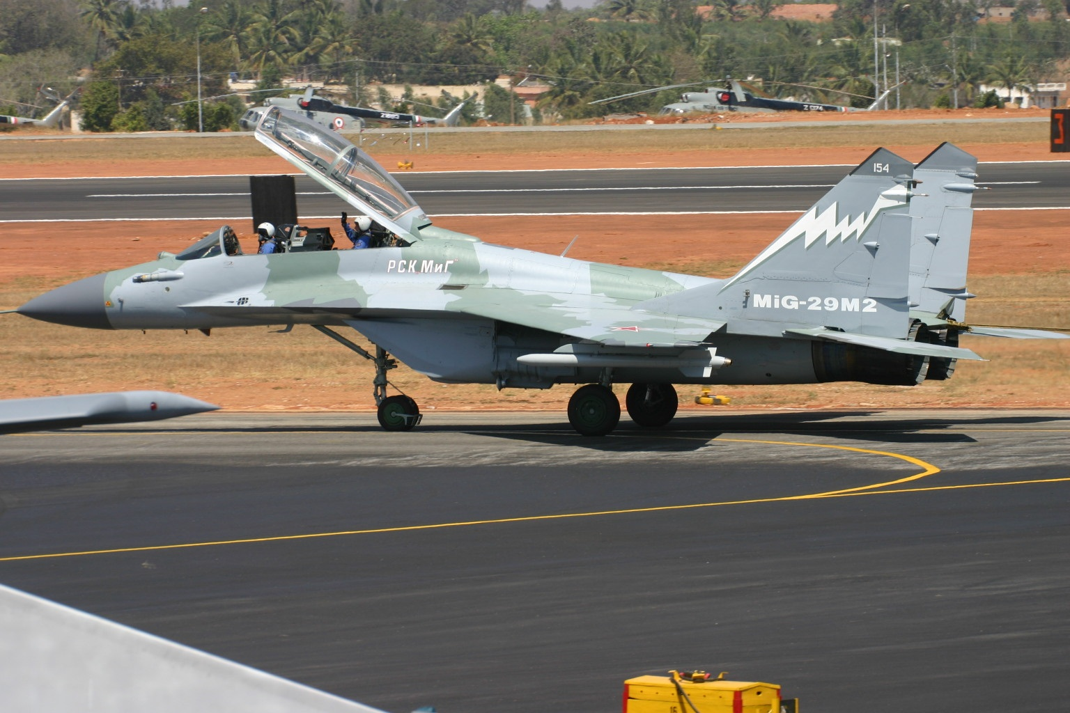 At Bangalore Yelahanka Air Force Base